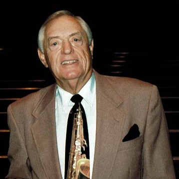 Boots Randolph 1997